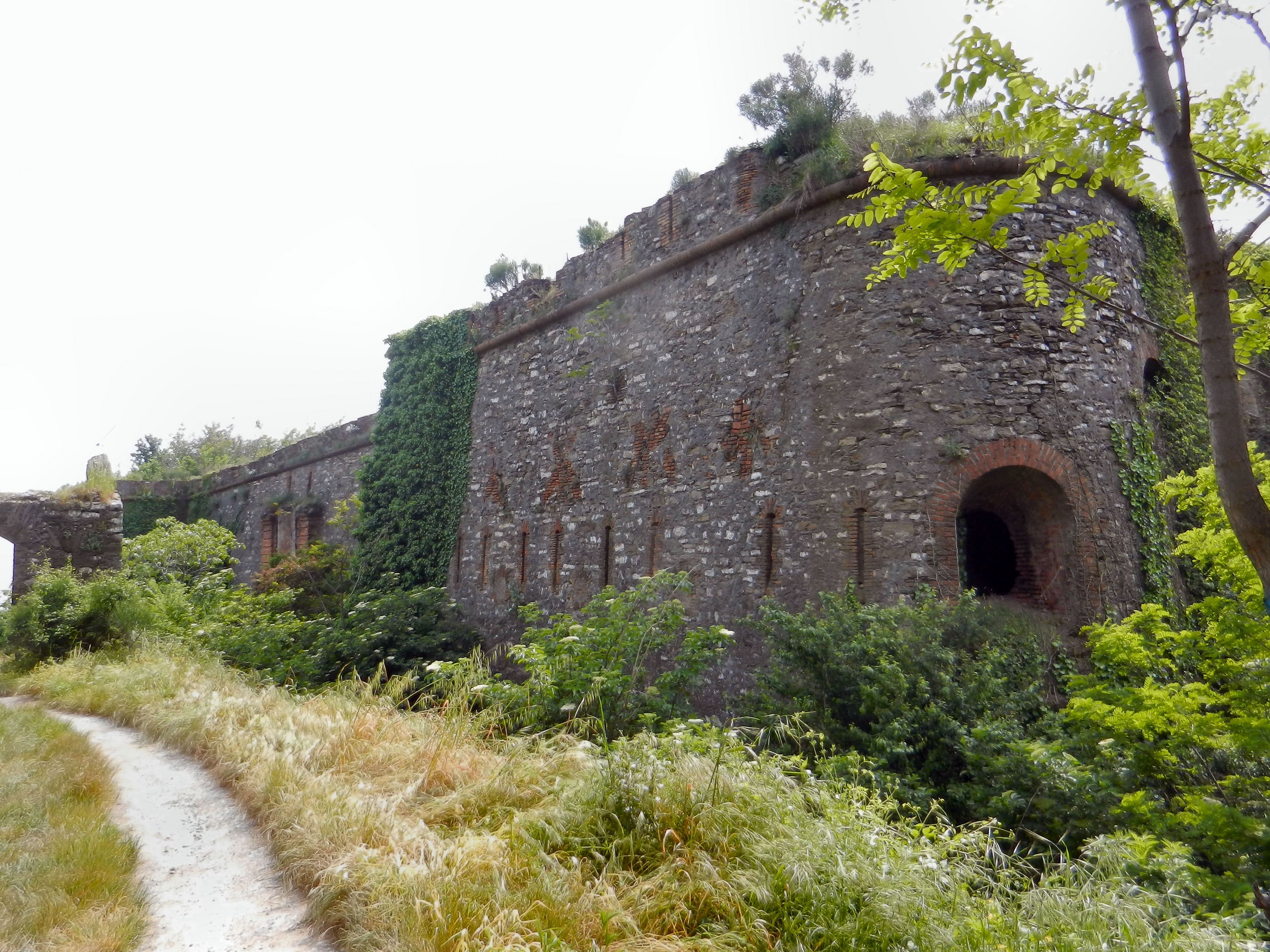 Fortresses of Genoa (Italy), Fort Crocetta